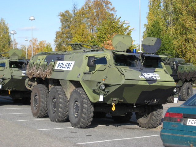 Panssari-Sisu XA-180 in Kauhajoki, Finland few hours after Kauhajoki shooting incident.